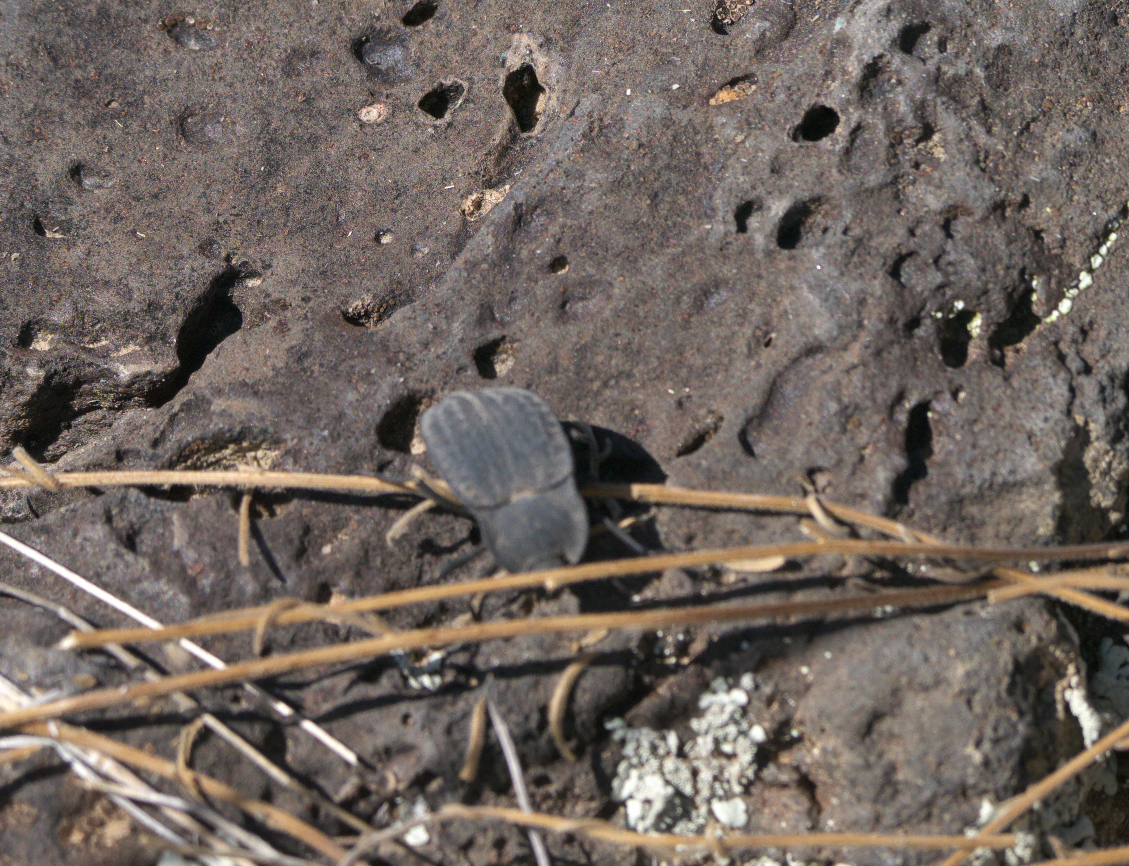 Stenomorpha opaca, Family: Darkling Beetles, ID Confidence: 87